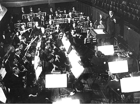 Afrasiyab Badalbeyli during the work in simfony orchestre of the Azerbaijani State Opera-House. Baku